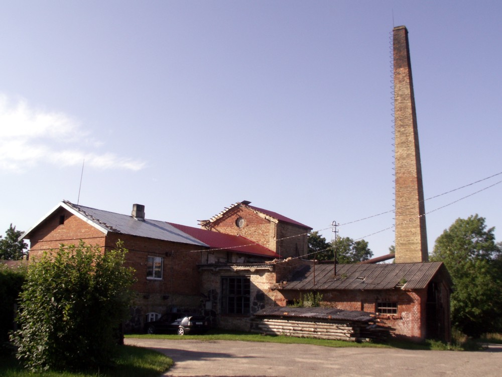 Bubiai village, Lithuania